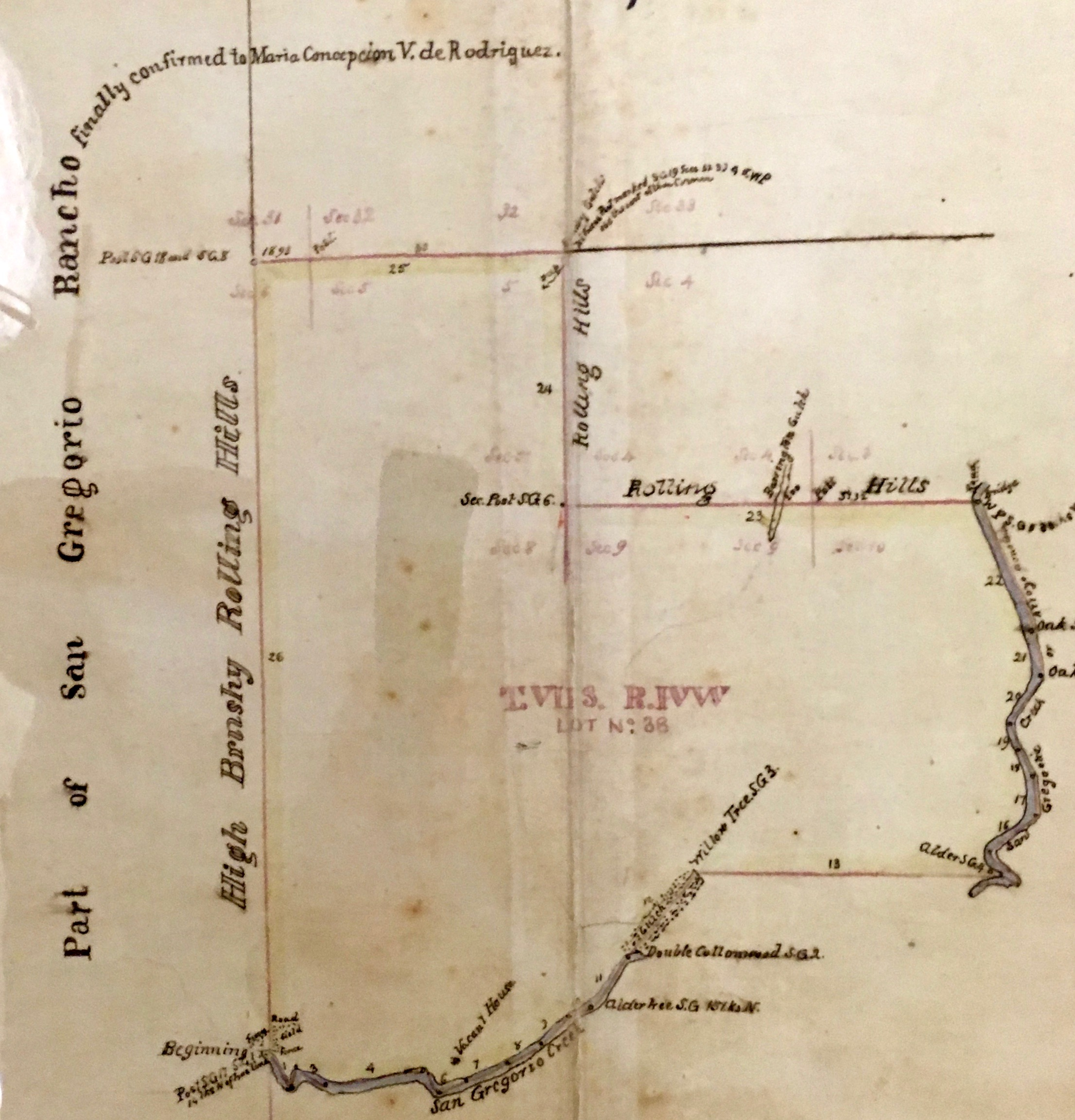 On appeal, the District Court confirmed the grant and the San Gregorio (Rodriguez) grant was patented to at 13,344 acres (54.0 km2) in 1861